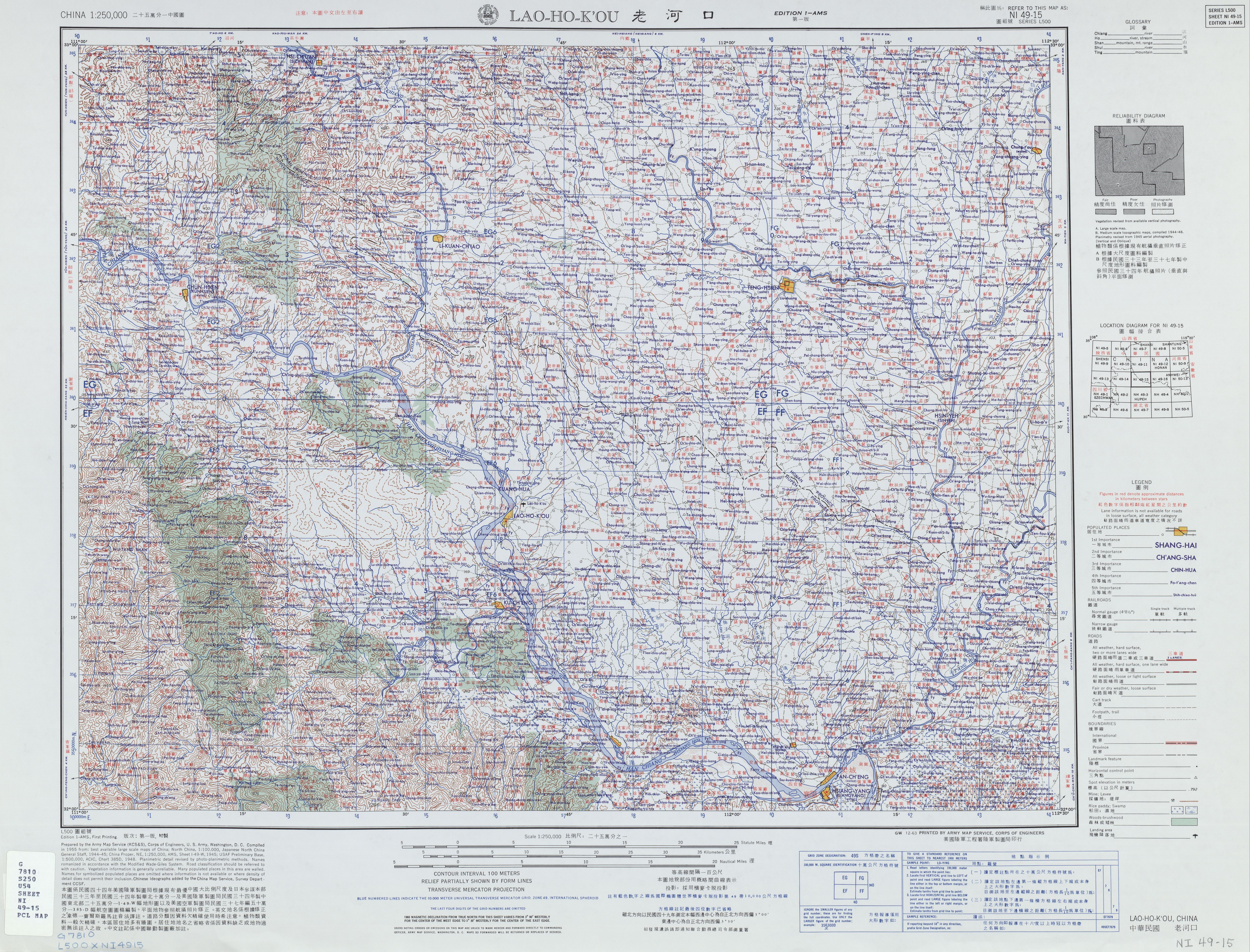 China AMS Topographic Maps